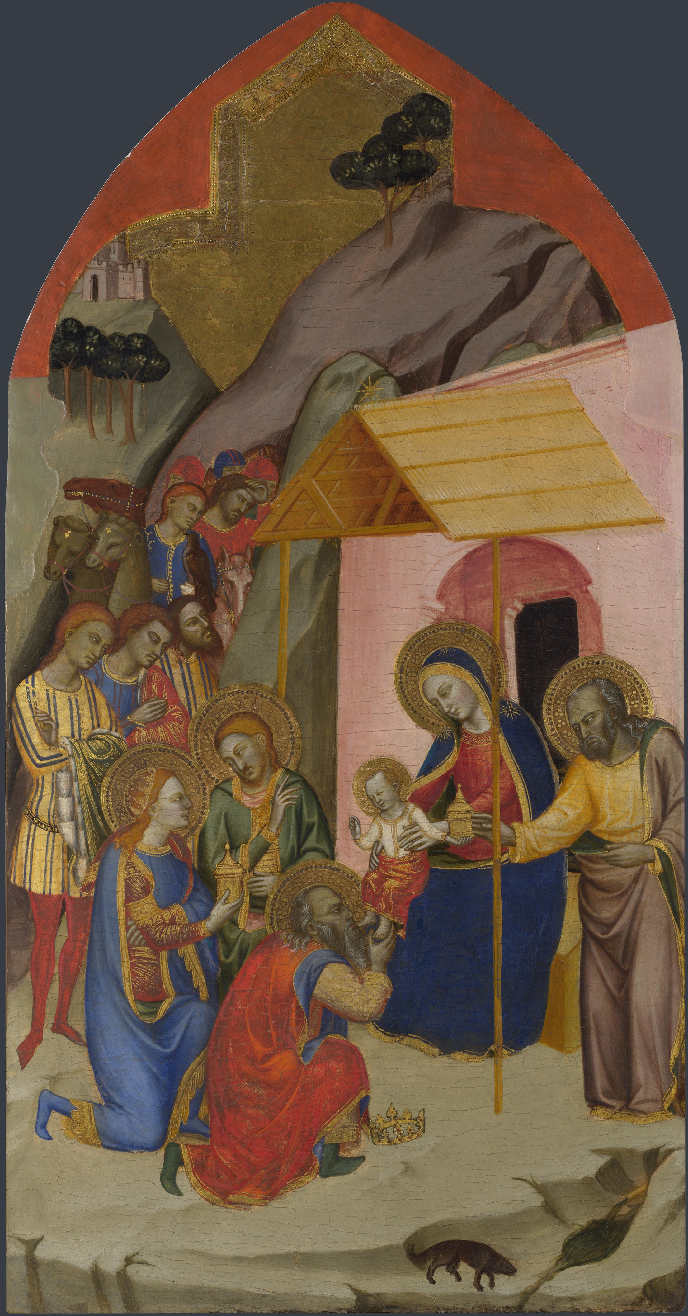 Jacopo di Cione Polyptych San Pier Maggiore, detail. 1370-71 London N